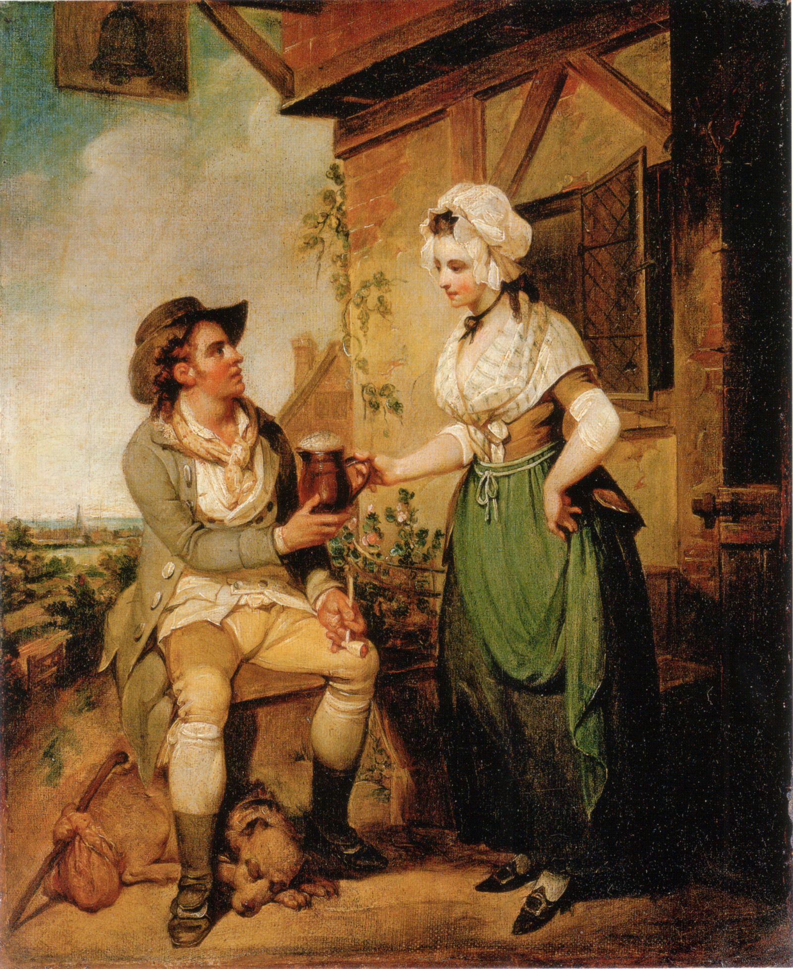 The Ale-House Door, oil on canvas